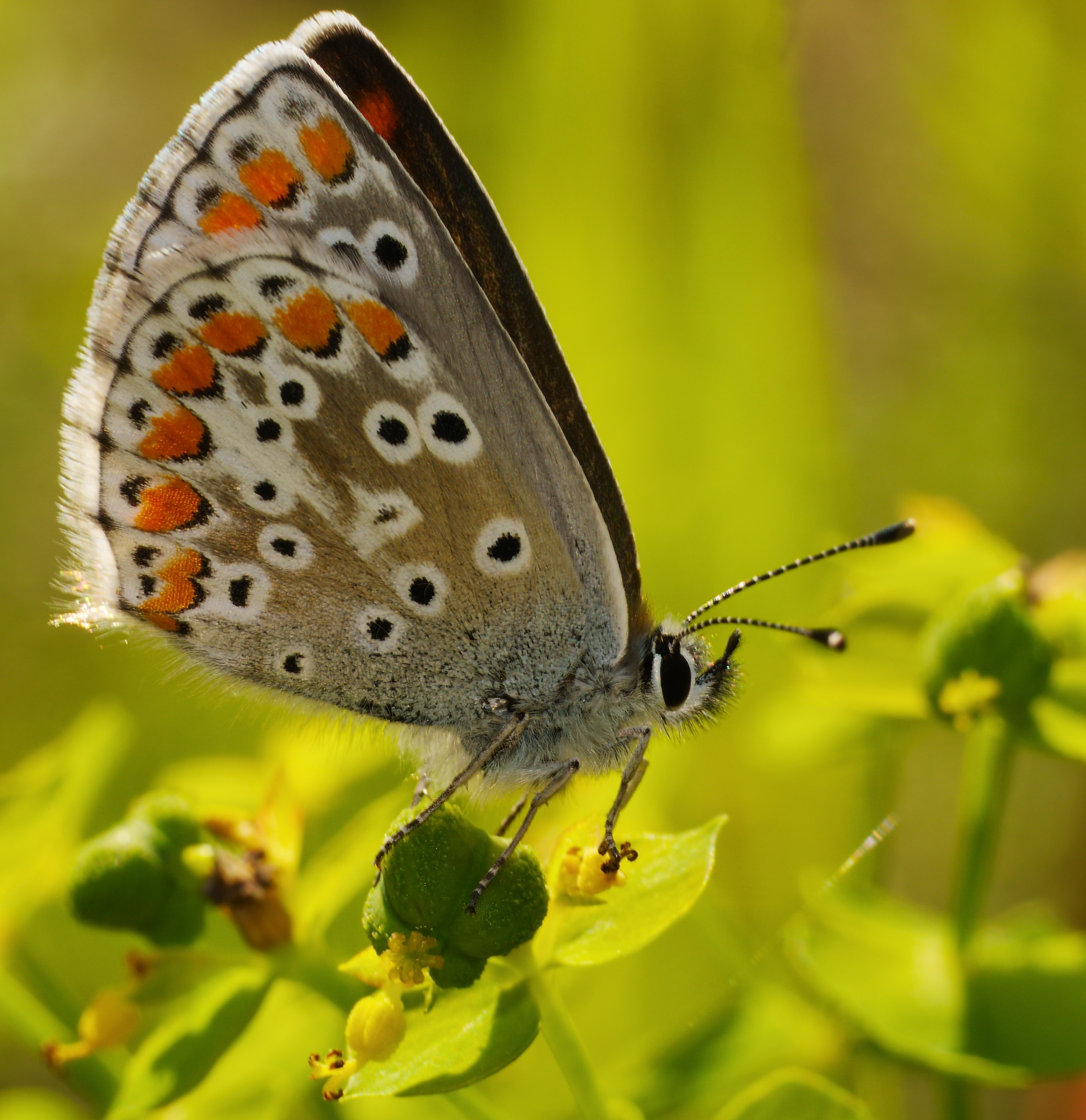 Brown argus - Aricia agestis. Taken in Mannheim in the Käfertaler Wald, Baden-Württemberg, Germany.